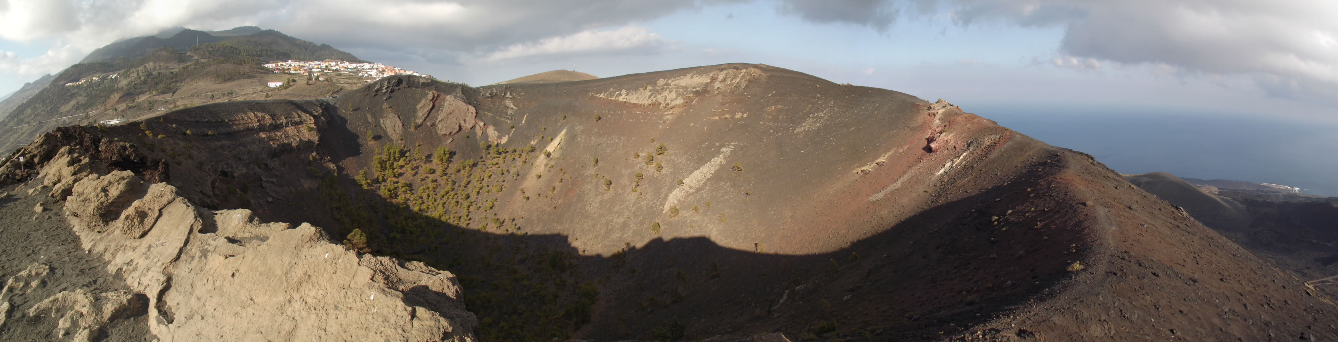 Volcán San Antonio, Los Canarios (La Palma), in the background Cumbre Vieja